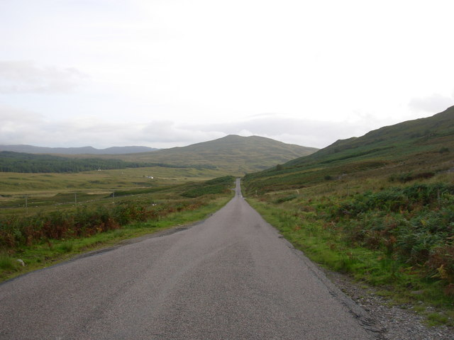 The road to Lochaline Looking down the A884 towards Alltachonaich. A single track road with passing places, it leads to Lochaline and the ferry to the Island of Mull.